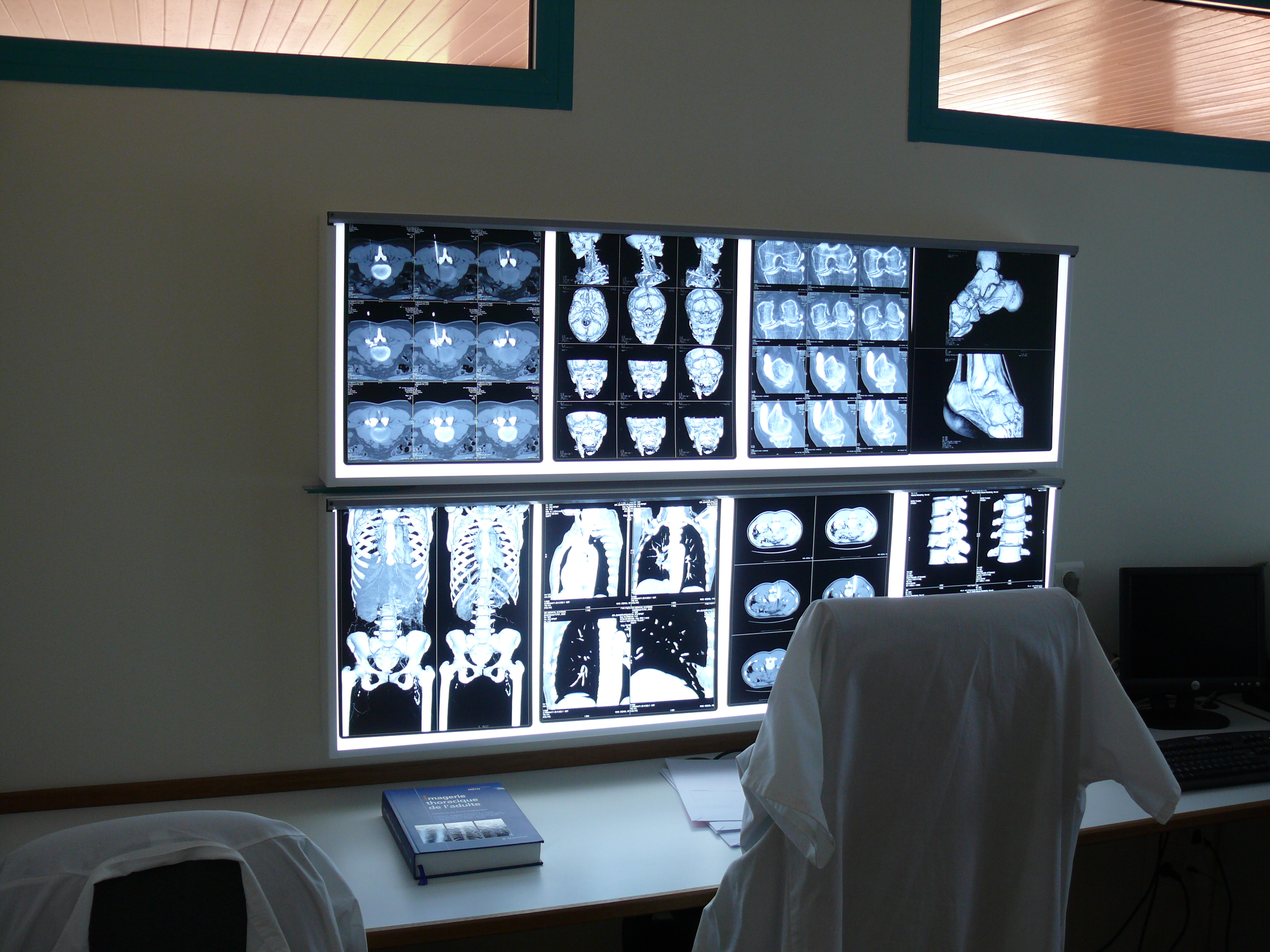 A radiology room in a hospital with x-rays to be examined.